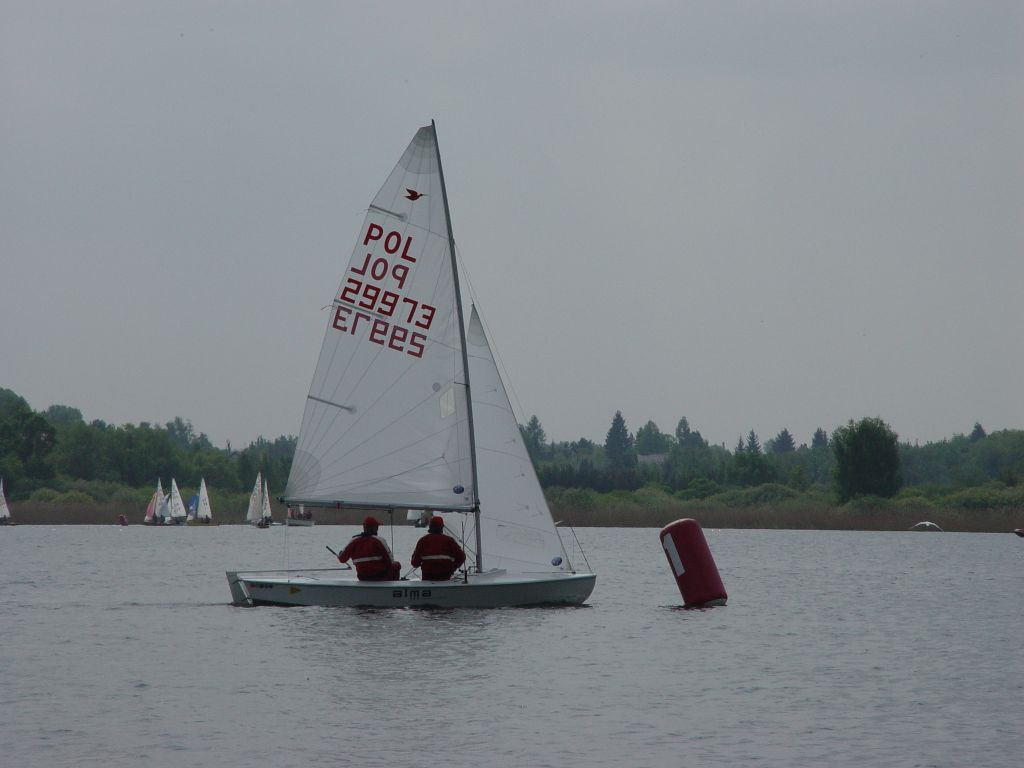 Snipe class dinghy POL 29973 Janusz Knasiecki (helm) with Bogdan Ratajczak (crew), Kiekrz lake (Poland)